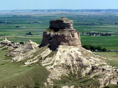 Dome Rock in Scotts Bluff National Monument, Nebraska, USA